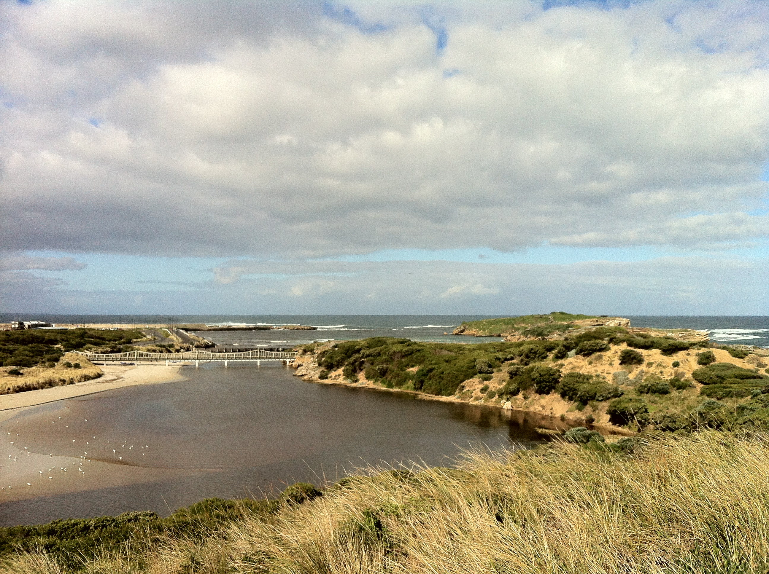 View from Pickering Point, Warrnambool